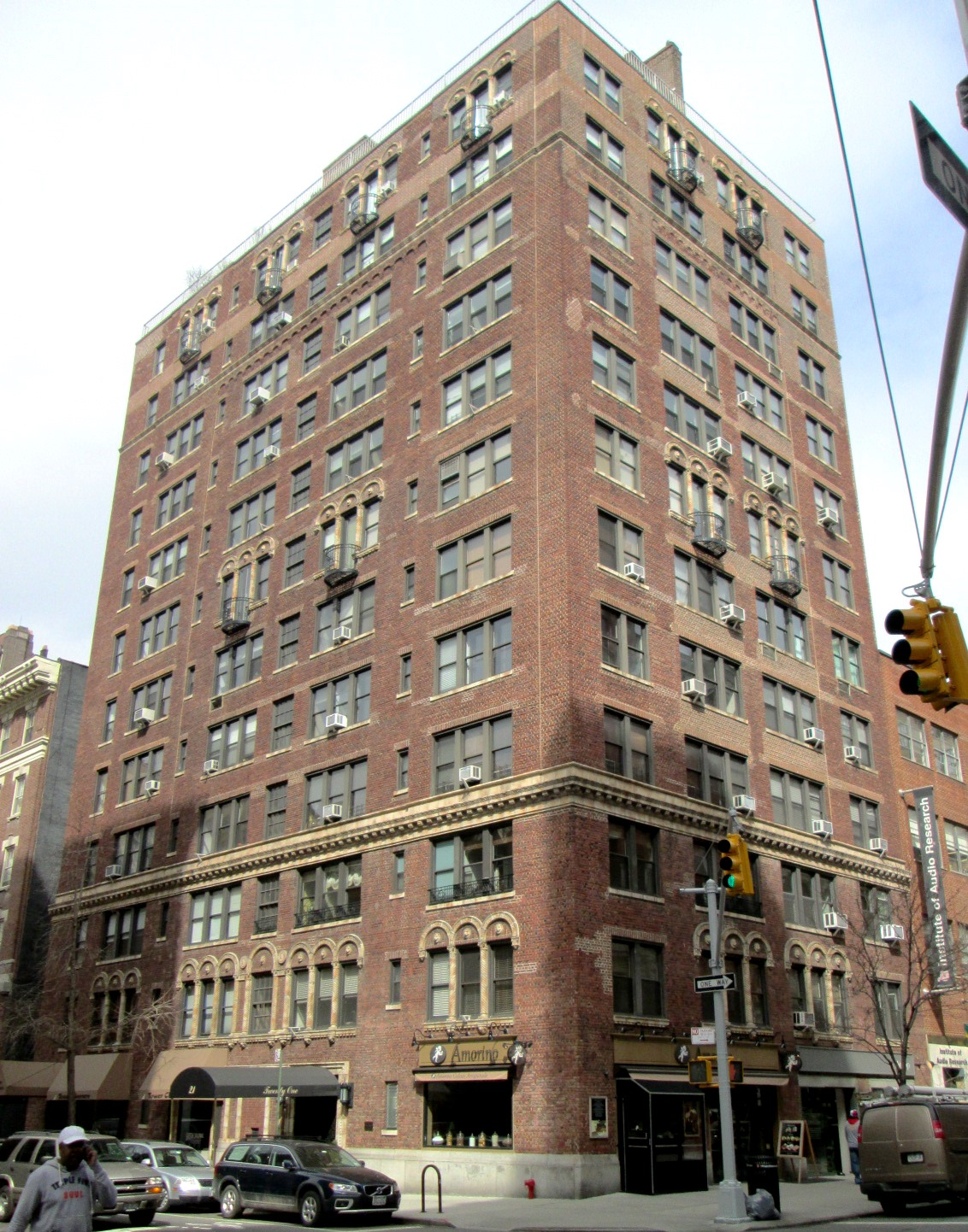 21 East 10th Street, also known as 60 University Place, in the Greenwich Village neighborhood of Manhattan, New York City, was built in 1926 and was designed by Sugarman & Berger. (Source: Emporis)